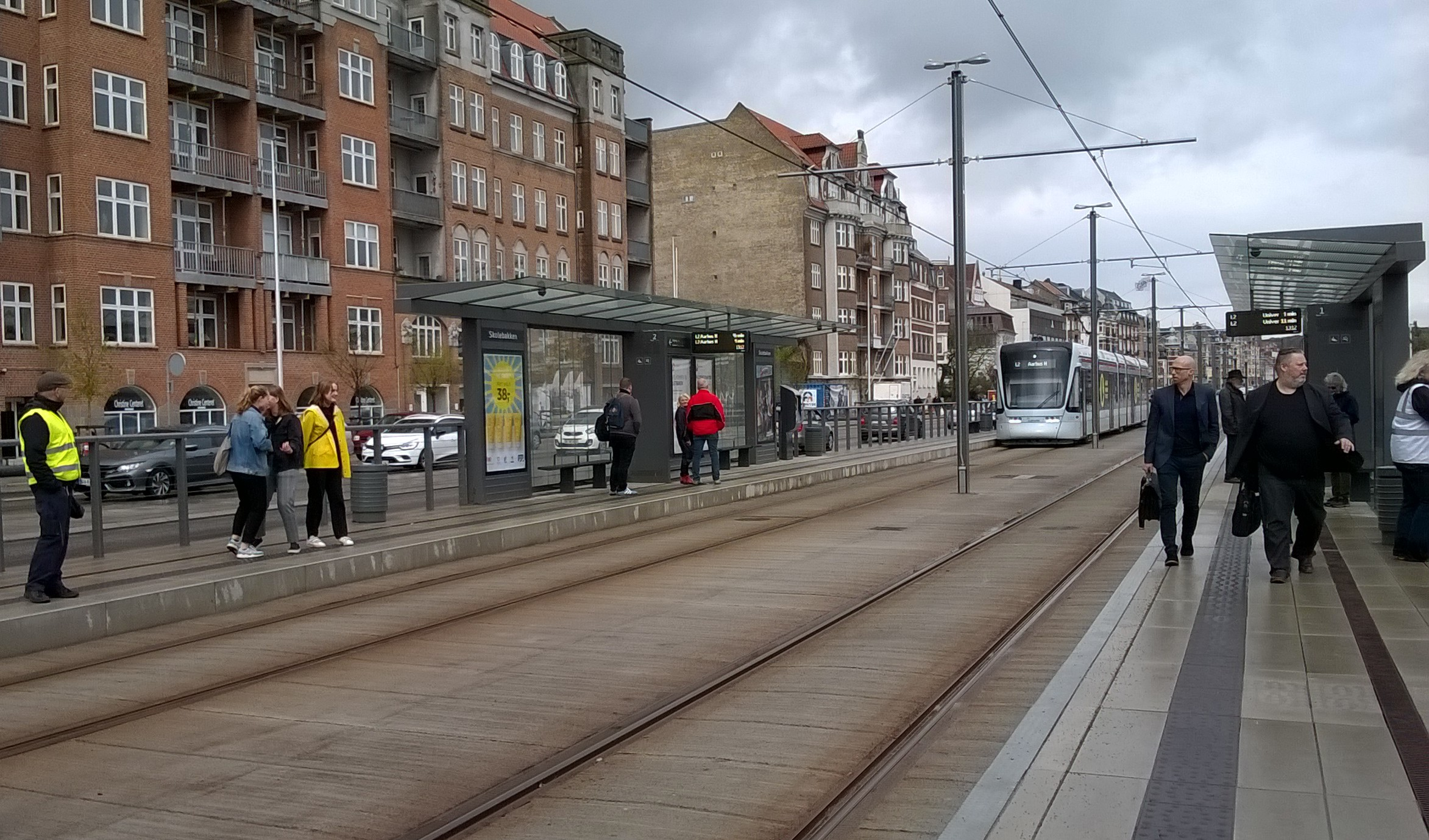 Skolebakken Station